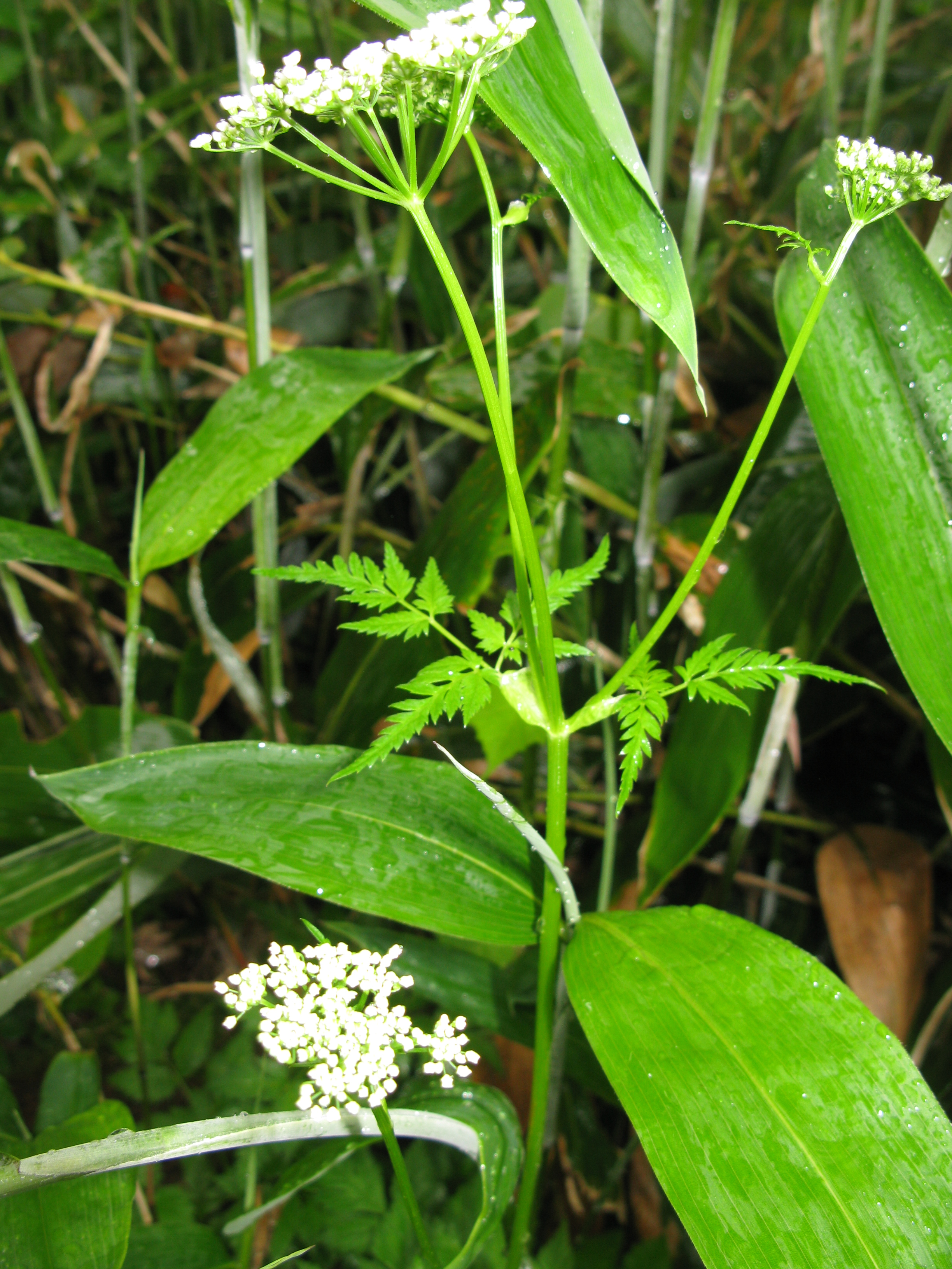 Aegopodium alpestre, Oze, Gunma pref., Japan